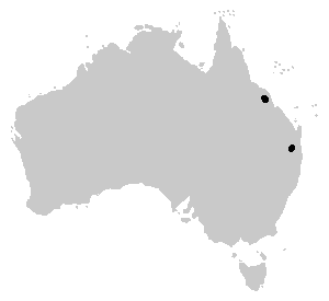 The former distribution of the now extinct Rheobatrachus genus.